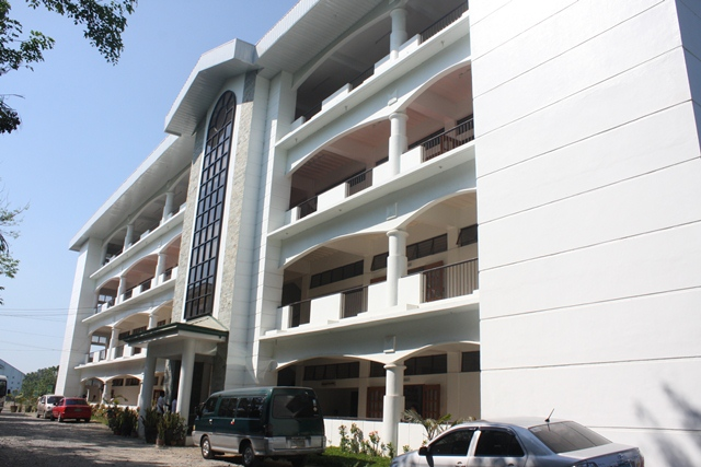 4 storey building with Orata Library, Arts and Languages Department and Engineering Department